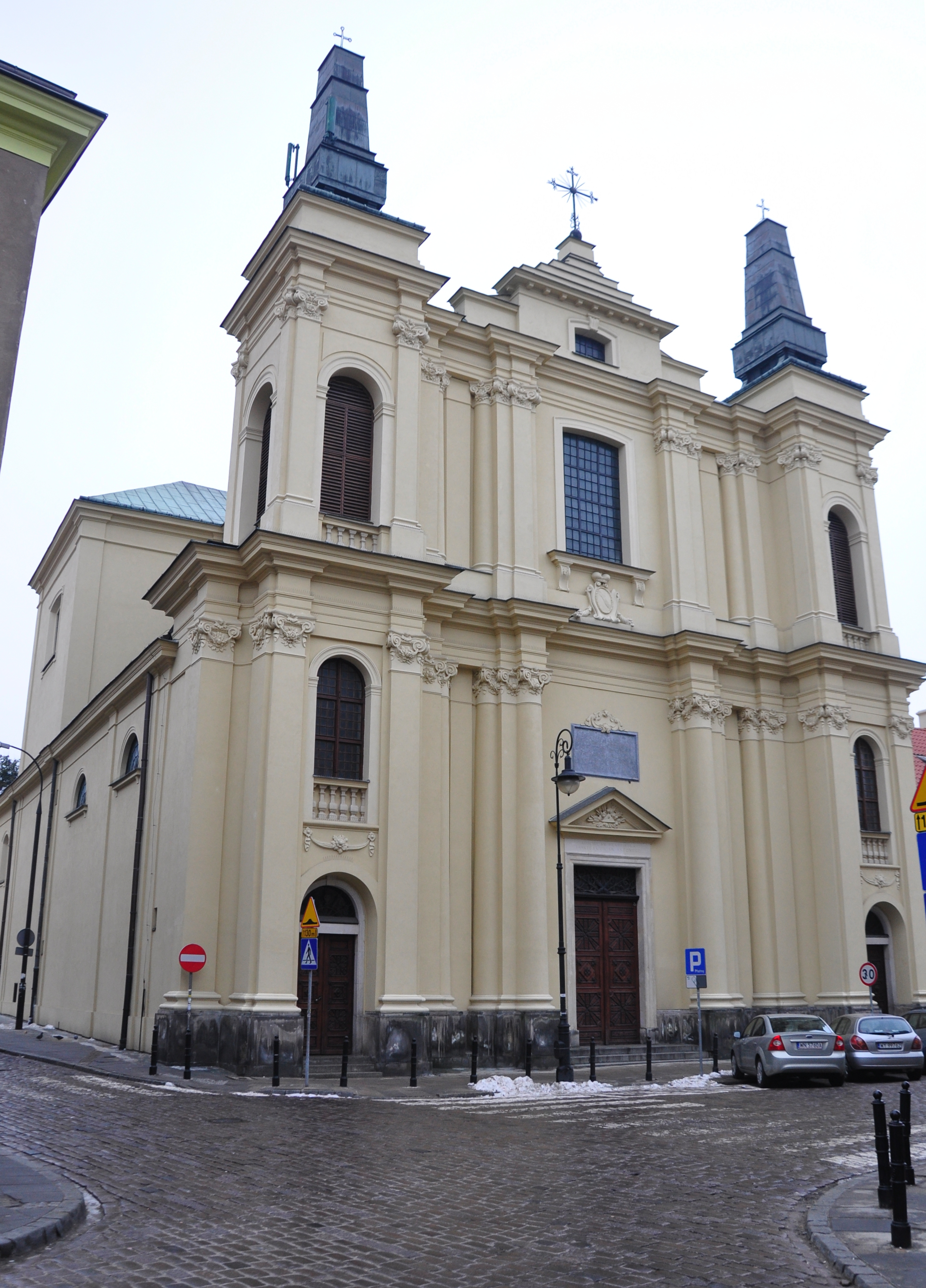 Warsaw, St. Francis of Assisi Church